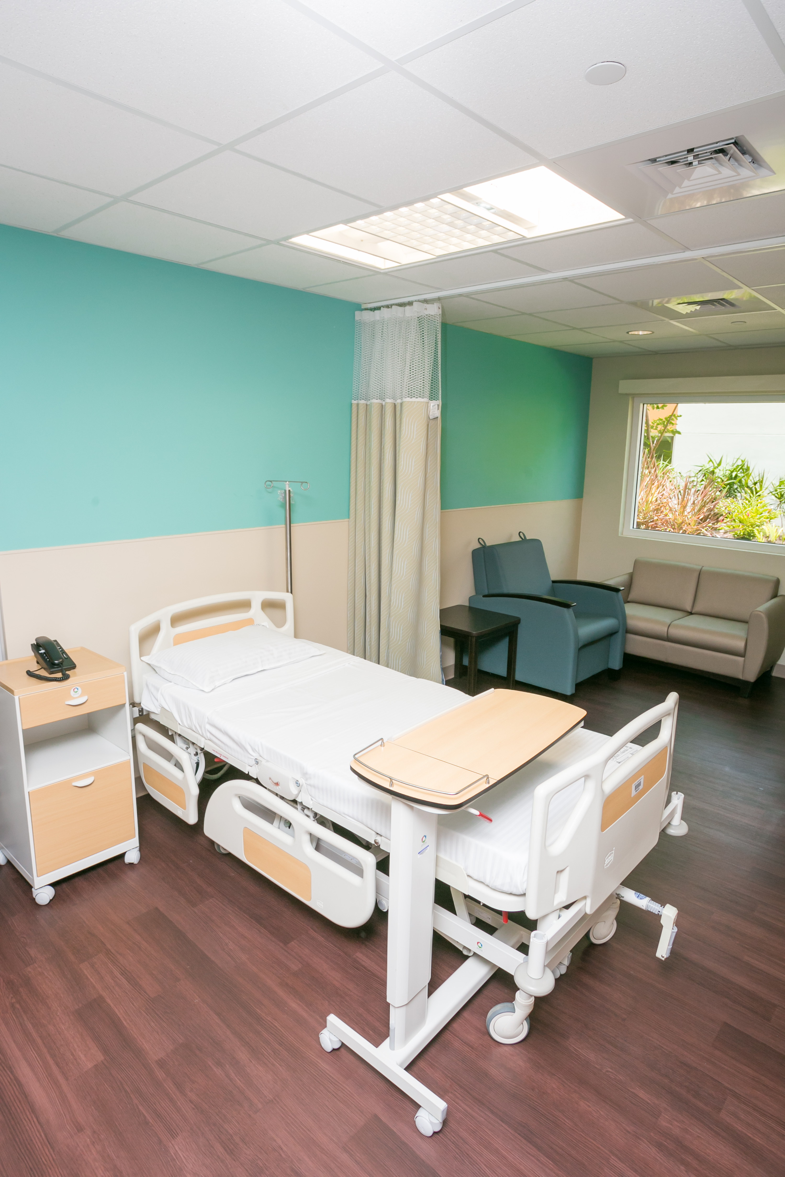 private patient hospital room